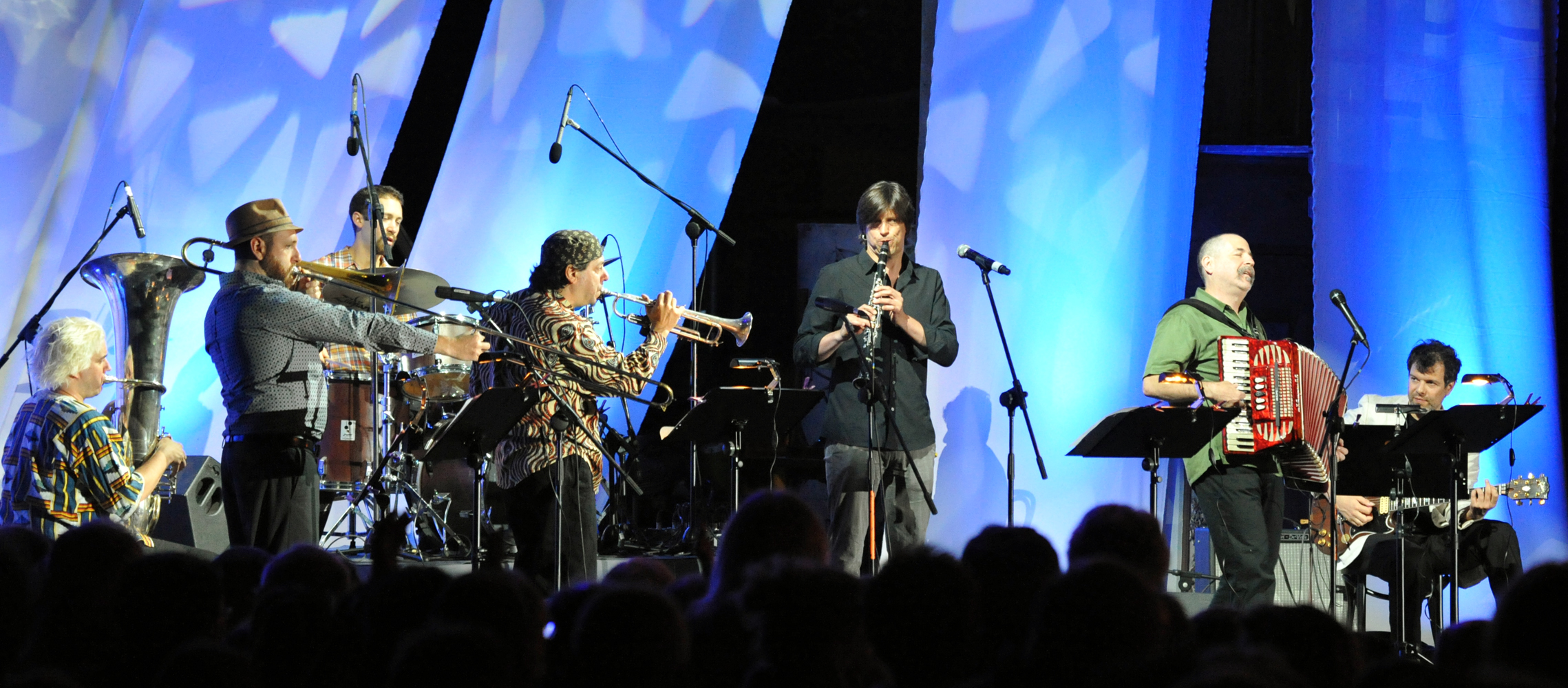 Frank London Brass All Stars klezmer band, with guest Christian David, performing in Warszawa during Singer Festival 2011.